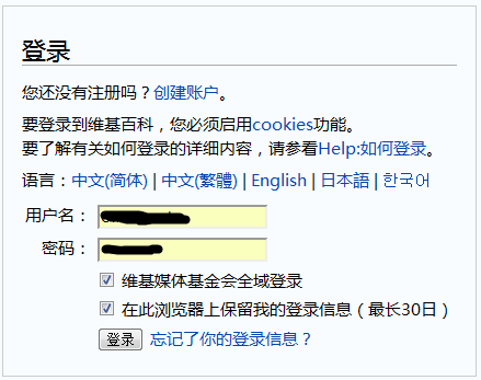 the login interface of chinese Wikipedia